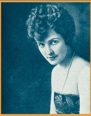 Publicity photo of Lucy Cotton from Who's Who on the Screen